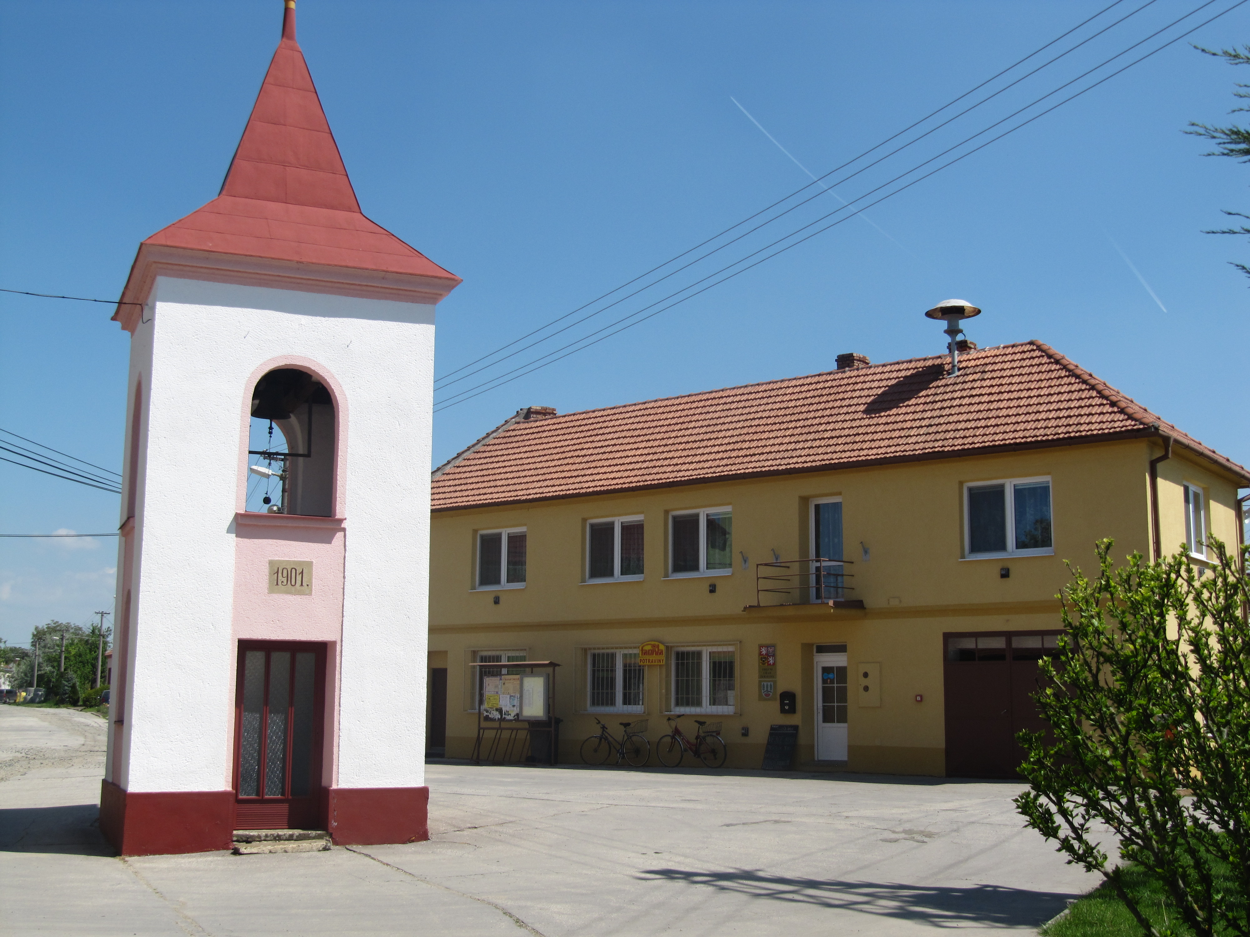 Žeraviny in Hodonín District, Czech Republic. Municipal office and belfry from 1901.